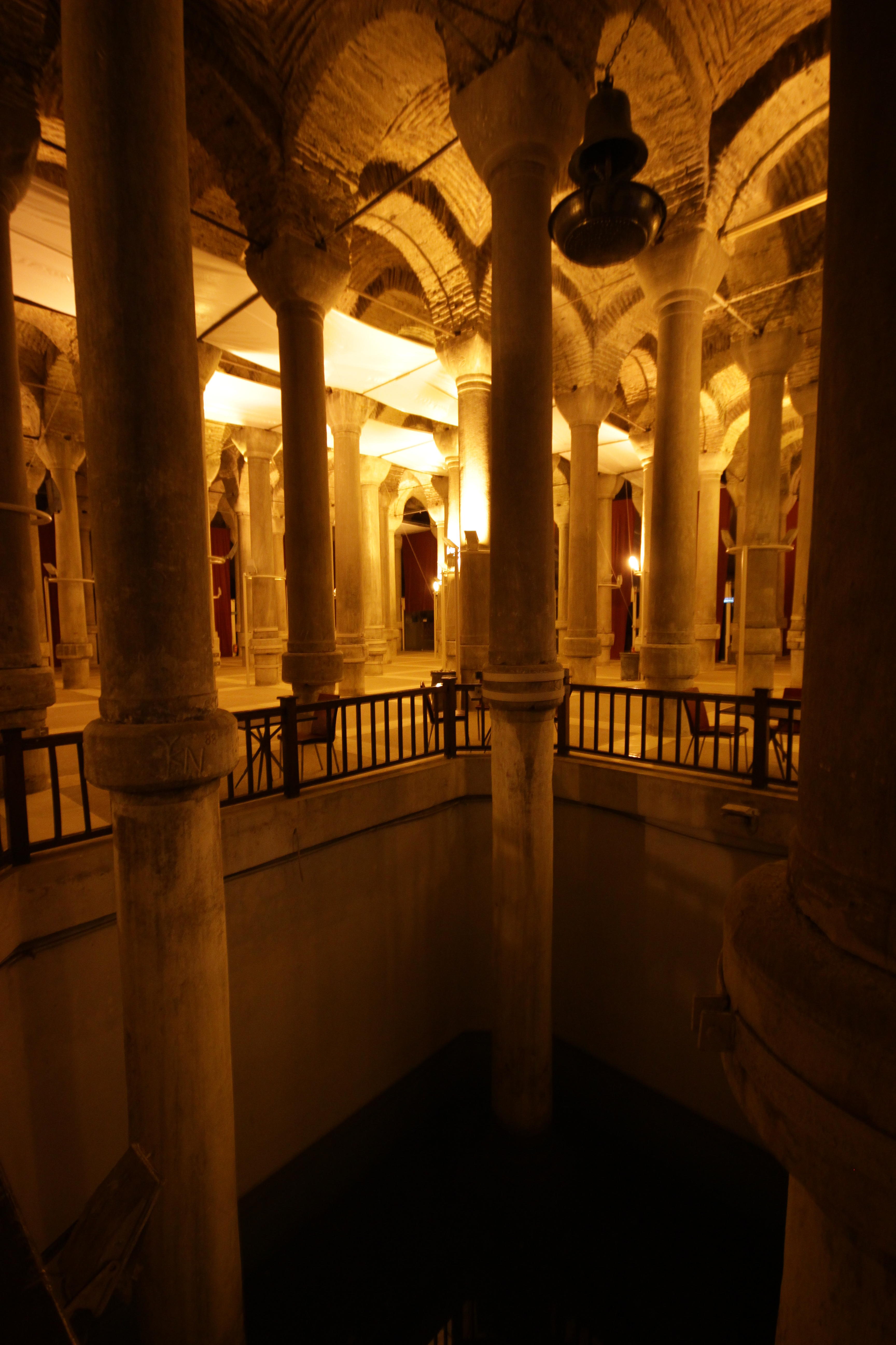 Cistern of Philoxenos: an excavated pool showing the original height of the double columns